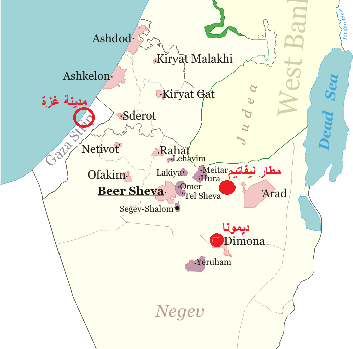 Nevatim and Dimona